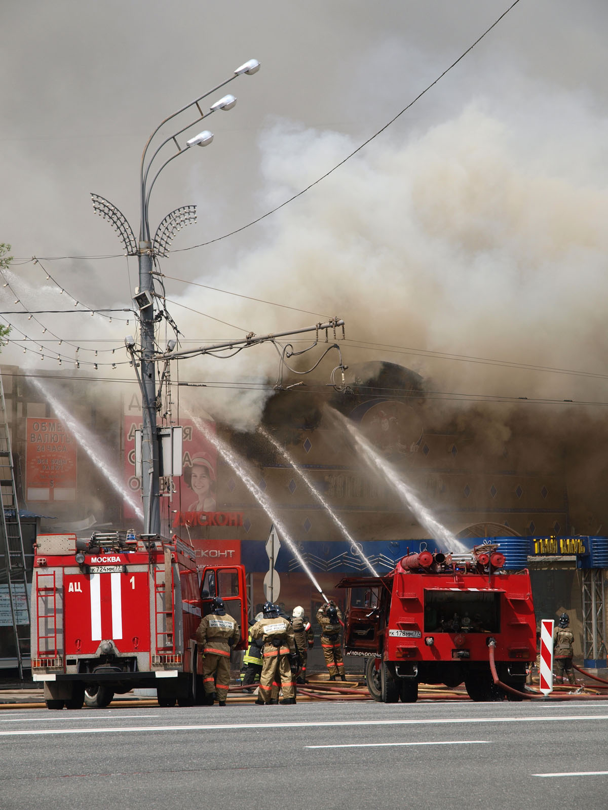 12:20, May 11, 2009, Moscow. A fire broke out at a two-story, 150-year-old building at Smolenskaya Square housing a gambling outfit. Heavy firefighting machines arrived on site at 12:30; open flames were suppressed by 13:20 and the fire was declared completely over at 16:37. See annotated gallery at Smolenskaya Square (Moscow) fire of May 11, 2009